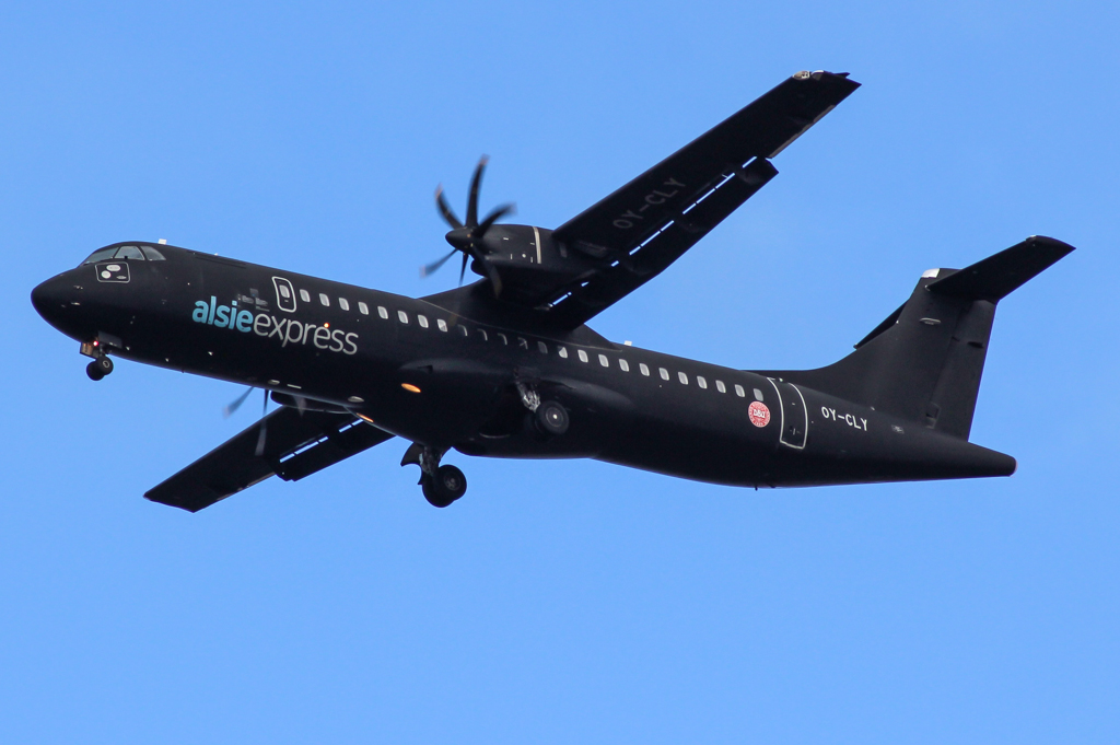 OY-CLY ATR-72 Air Alsie landing at Glasgow Airport with the Danish football squad